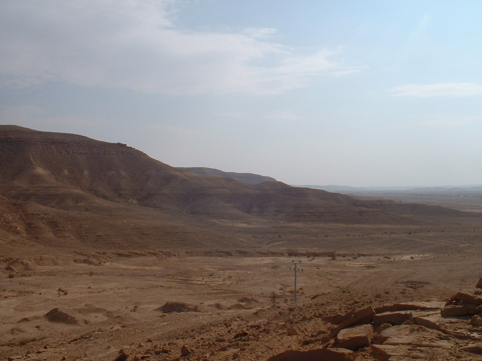 The desert, 3km from Sadus, Saudi Arabia, North-West of Riyadh. Location (24.964295,46.218573) alt=+835m